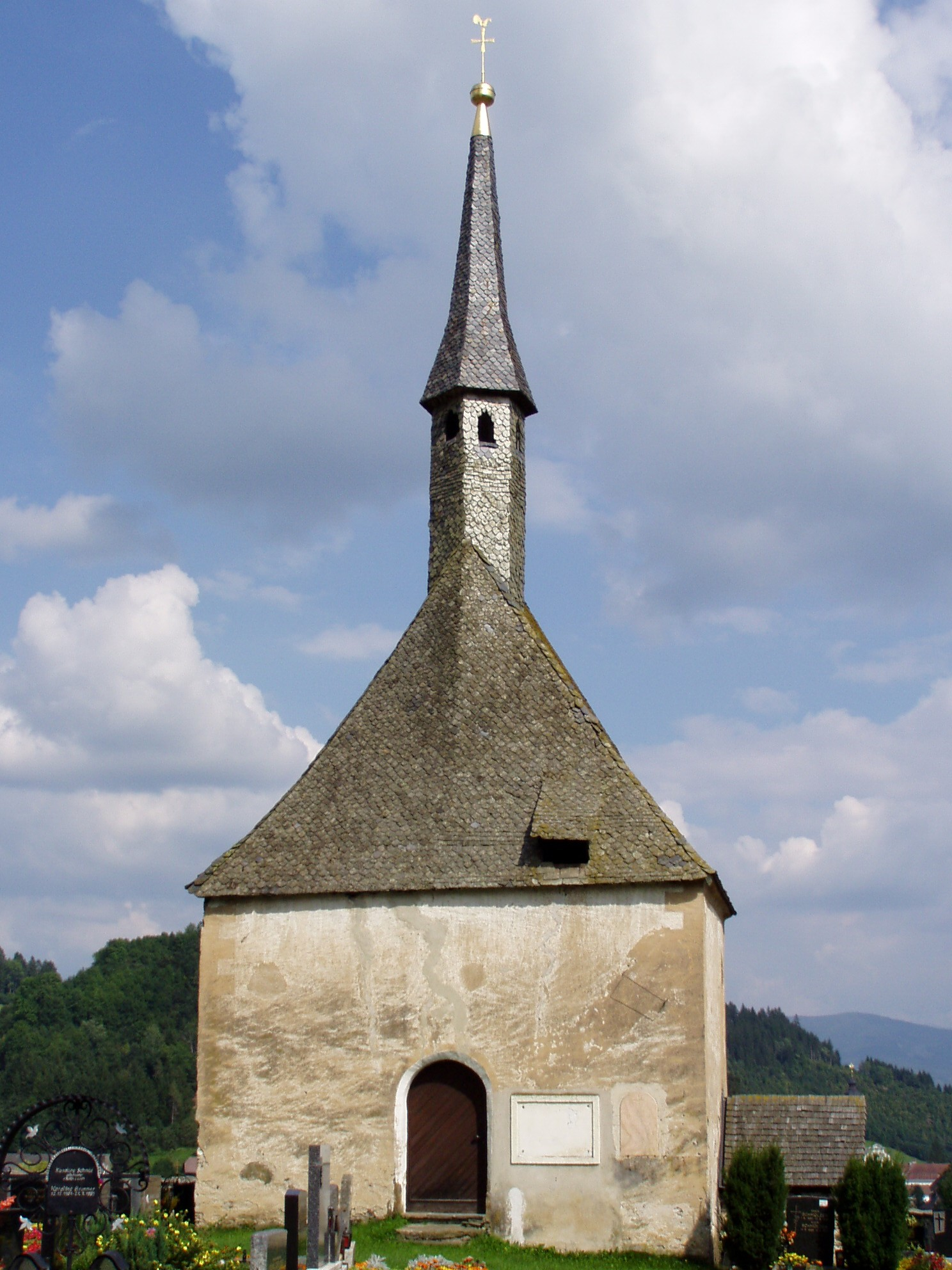 Lieding, former chapel in the cemetery where the deceased are layed out/Lieding, Karner im Friedhof